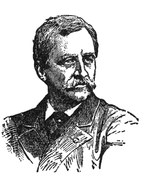 BARON NORDENSKJÖLD